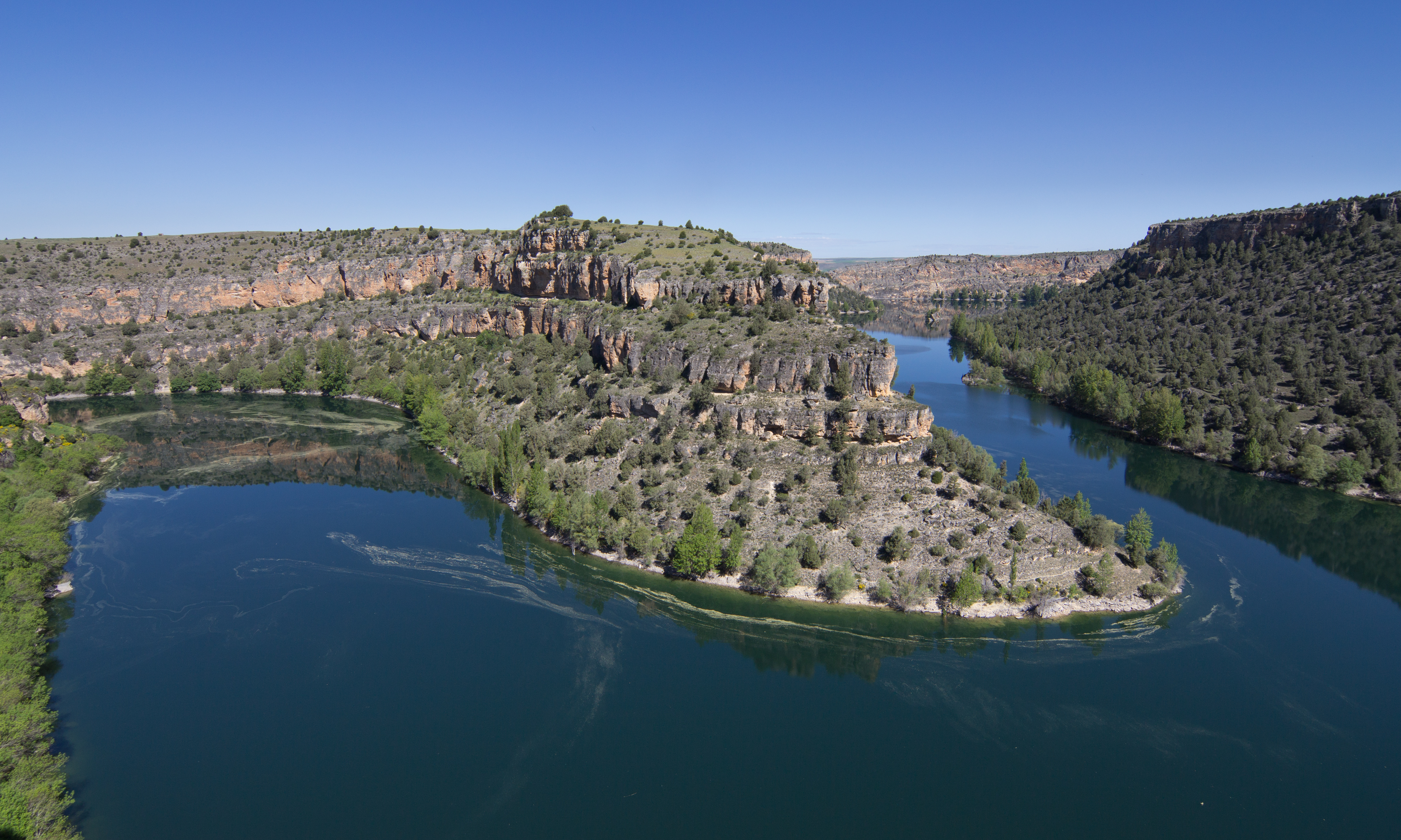 Canyon of Duratón River, Segovia, Castile and León, Spain. This is a photography of a Special Area of Conservation in Spain with the ID: ES0000115. Natura2000 entry, EEA entry